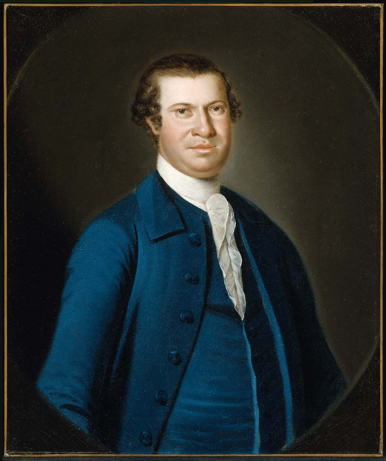 Portrait of Anthony Stewart (1728-1791)